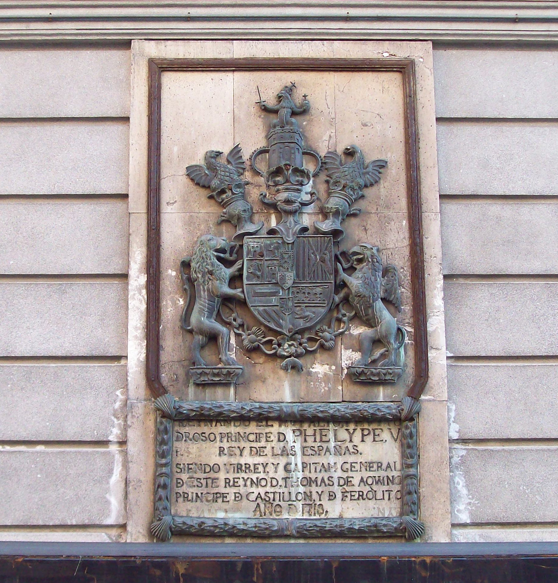 Bronze relief representing Philip V of Spain's coat of arms. Detail of the north façade of Salón de Reinos (one of the buildings of the former Buen Retiro Palace) in Madrid (Spain).